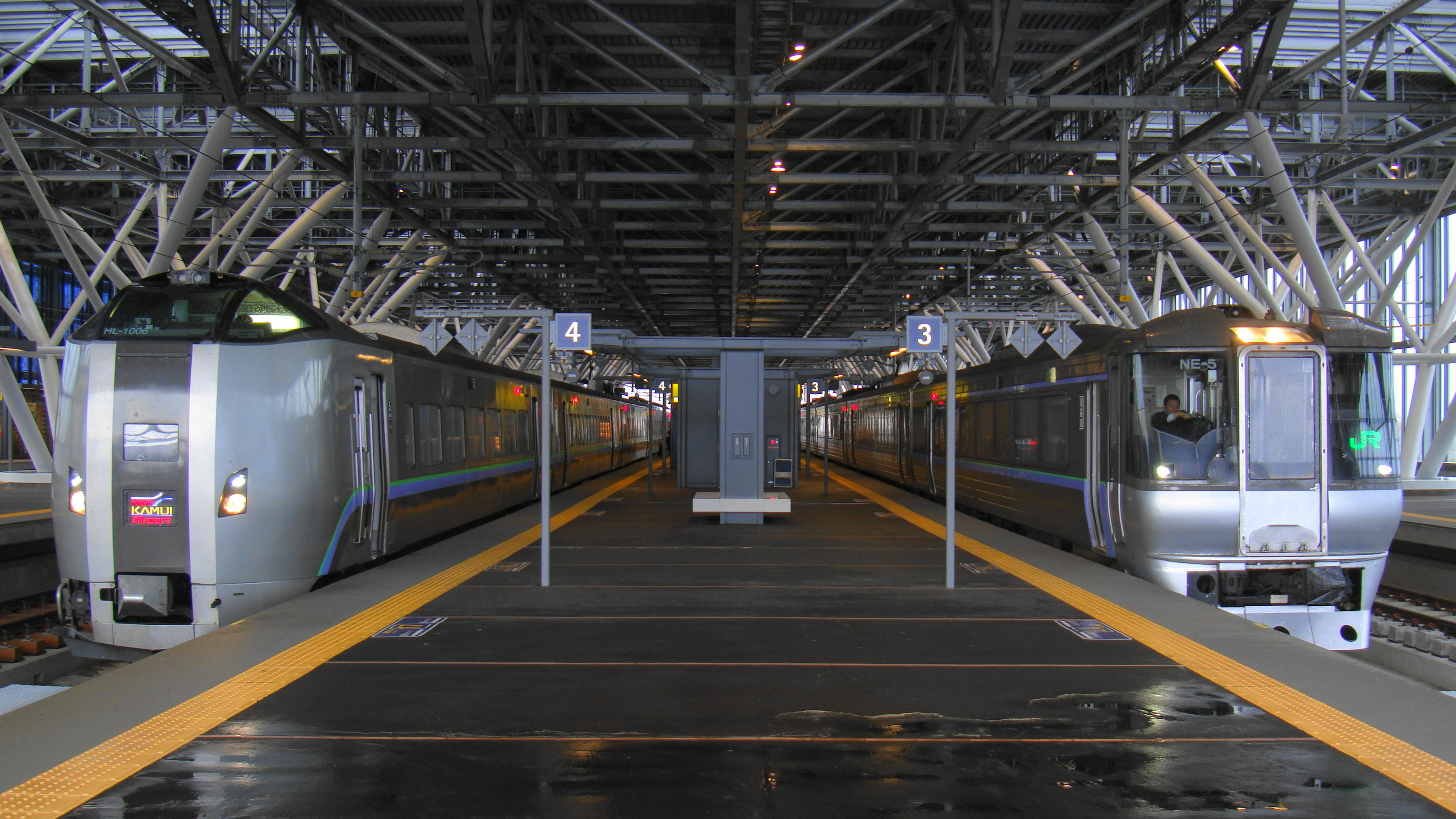 Asahikawa Station with JR Hokkaido 789-1000 series EMU set HL-1006 at platform 4 on the left and 785 series EMU set NE-5 at platform 3 on the right, both on Super Kamui services